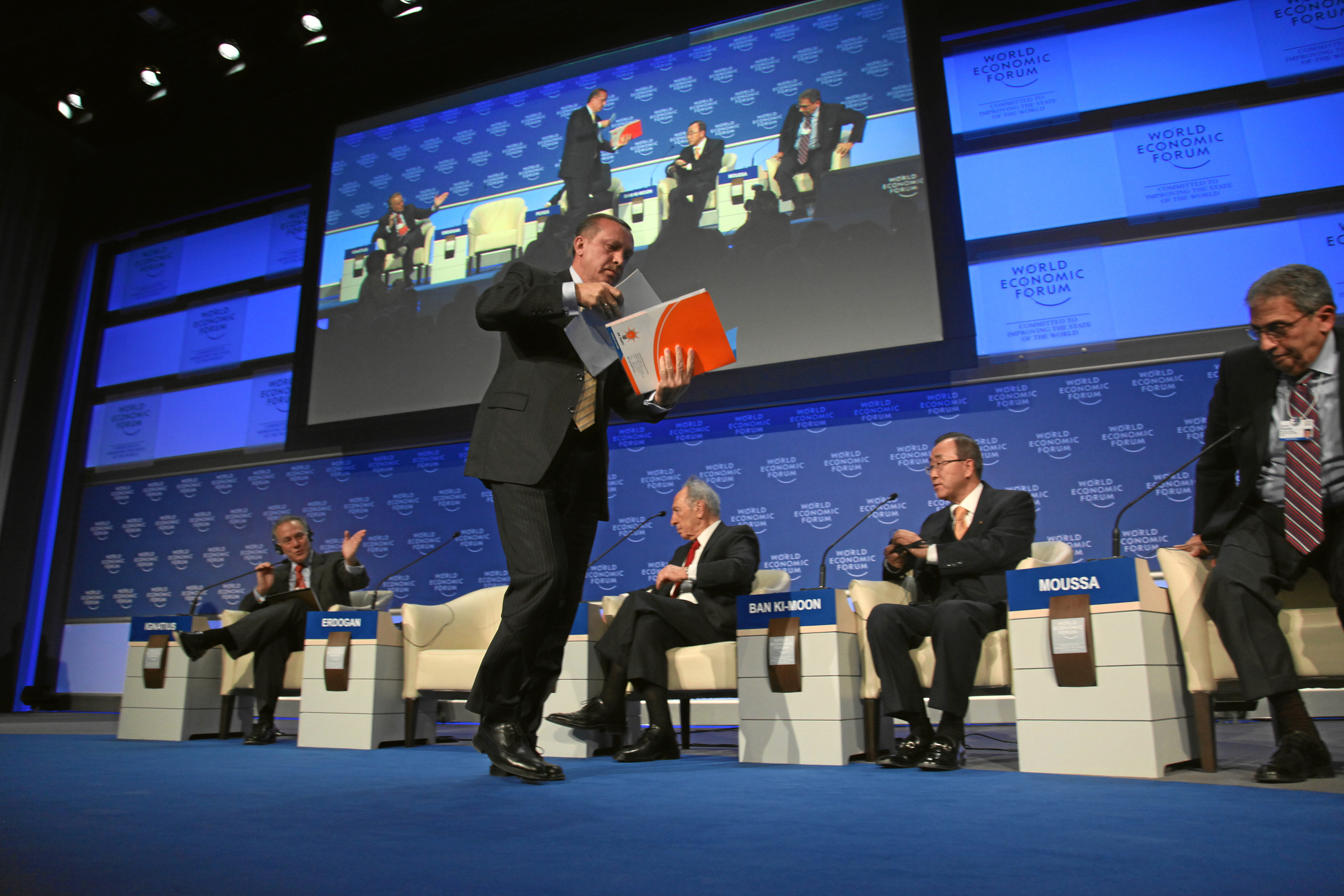 DAVOS-KLOSTERS/SWITZERLAND, 29JAN09 - Recep Tayyip Erdogan, Prime Minister of Turkey leaves the session, while David Ignatius (FLTR), Associate Editor and Columnist, The Washington Post, USA, Shimon Peres, President of Israel, Ban Ki-moon, Secretary-General, United Nations, New York, Amre Moussa, Secretary-General, League of Arab States, Cairo, look on, during the session 'Gaza: The Case for Middle East Peace' at the Annual Meeting 2009 of the World Economic Forum in Davos, Switzerland, January 29, 2009.